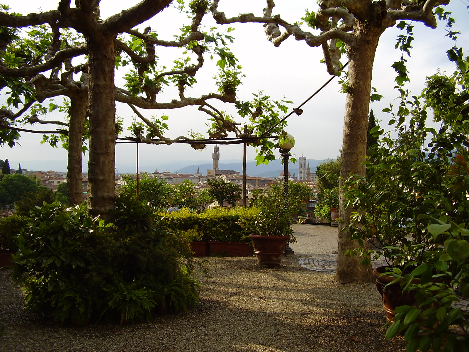 Rose garden, in Piazzale Michelangelo in Florence, Italy